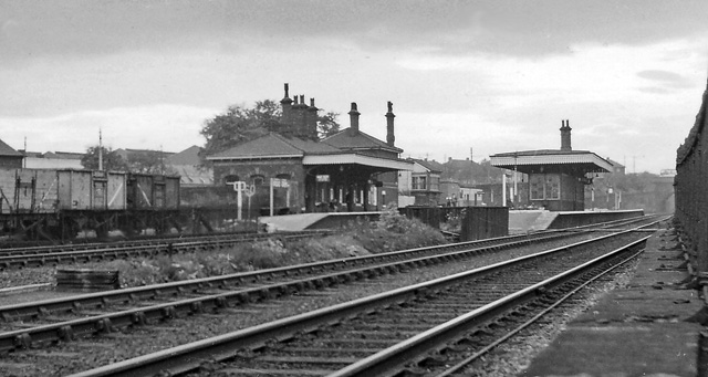 Broad Green Station, Liverpool. View westward, towards Liverpool (Lime St.); ex-London & North Western Liverpool - Manchester (original) main line.